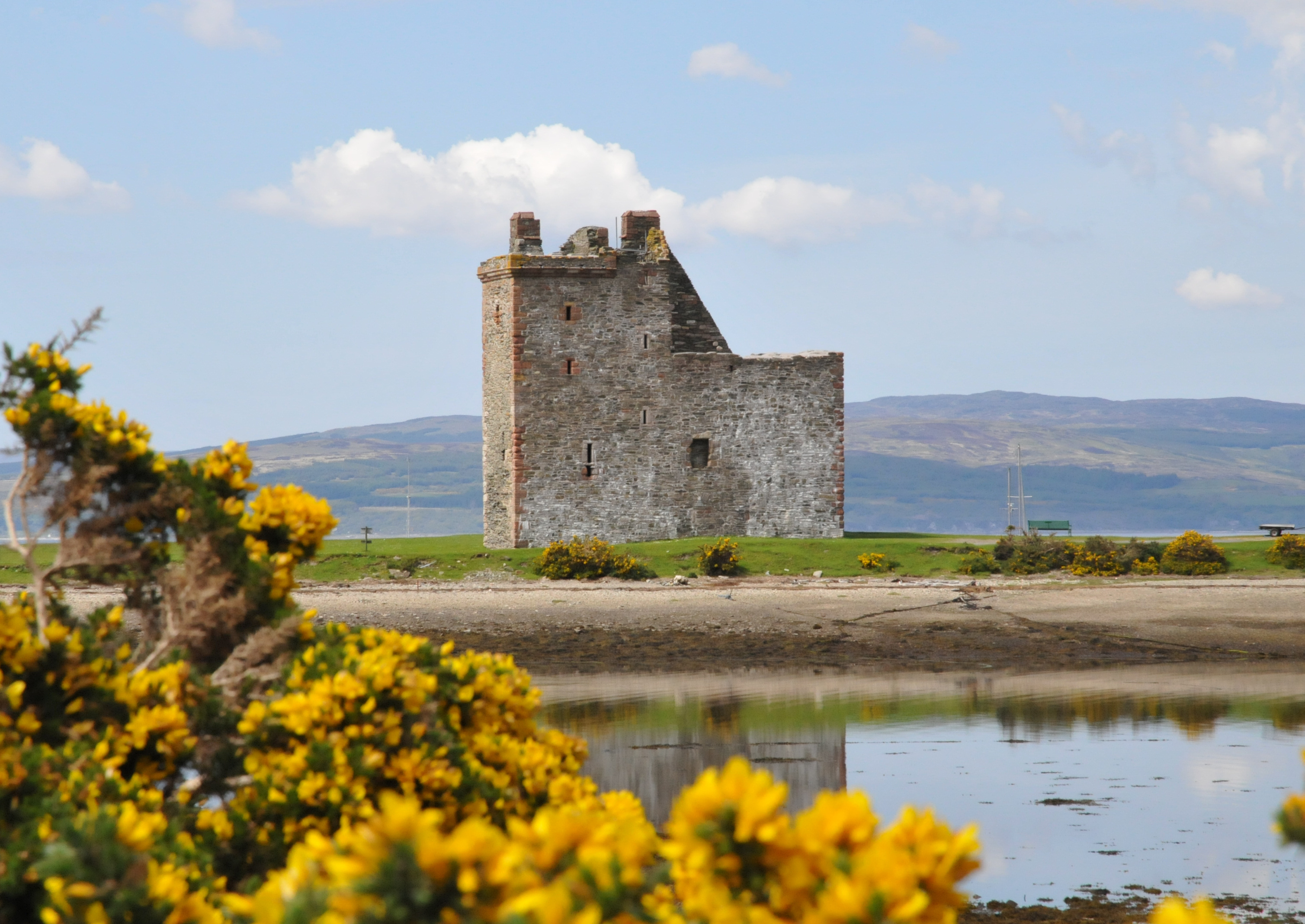 Lochranza Castle, Isle of Arran, south-eastern aspect